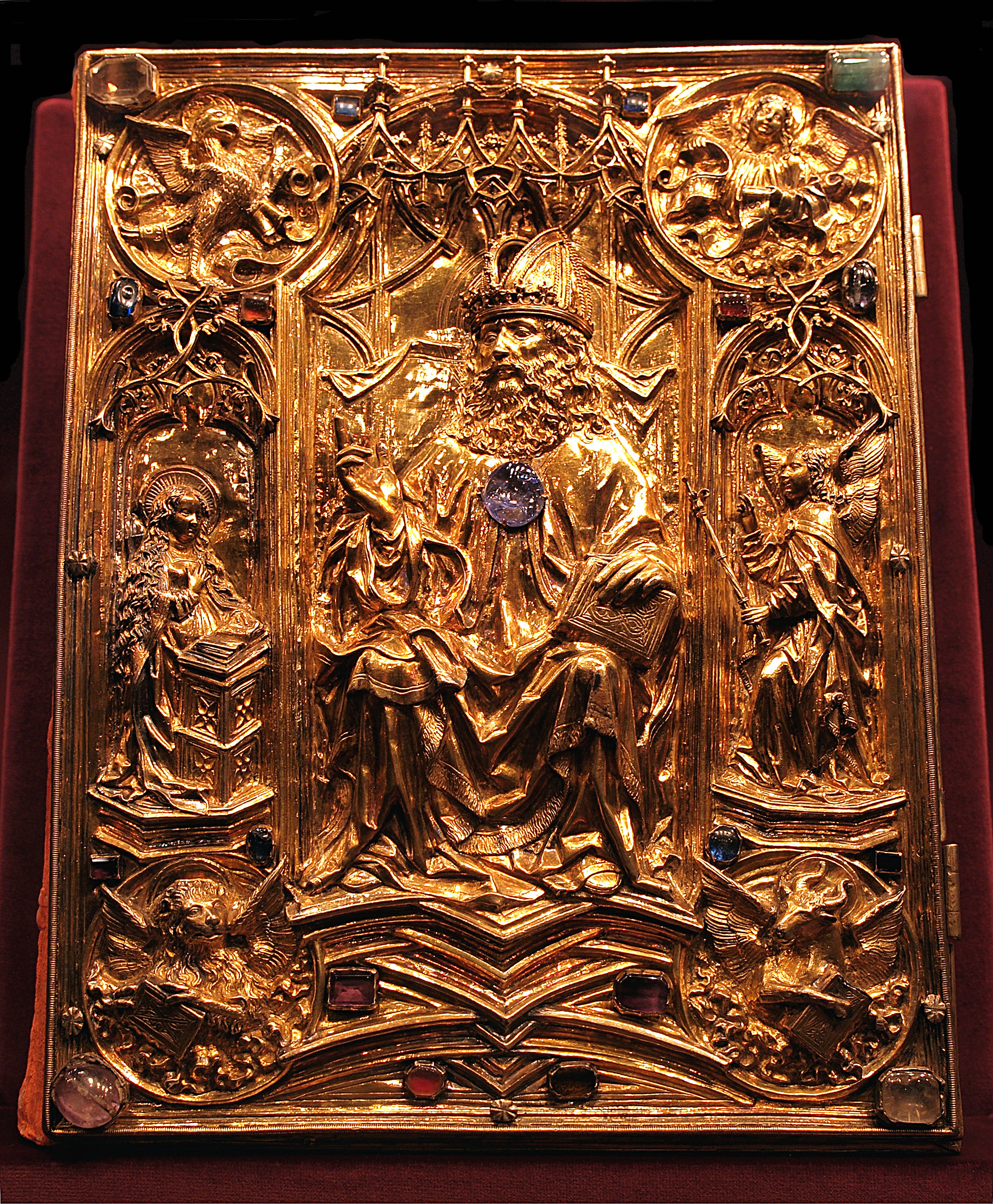 Book cover of the Coronation Evangeliar, part of the Imperial Regalia of the Holy Roman Empire (HRE).